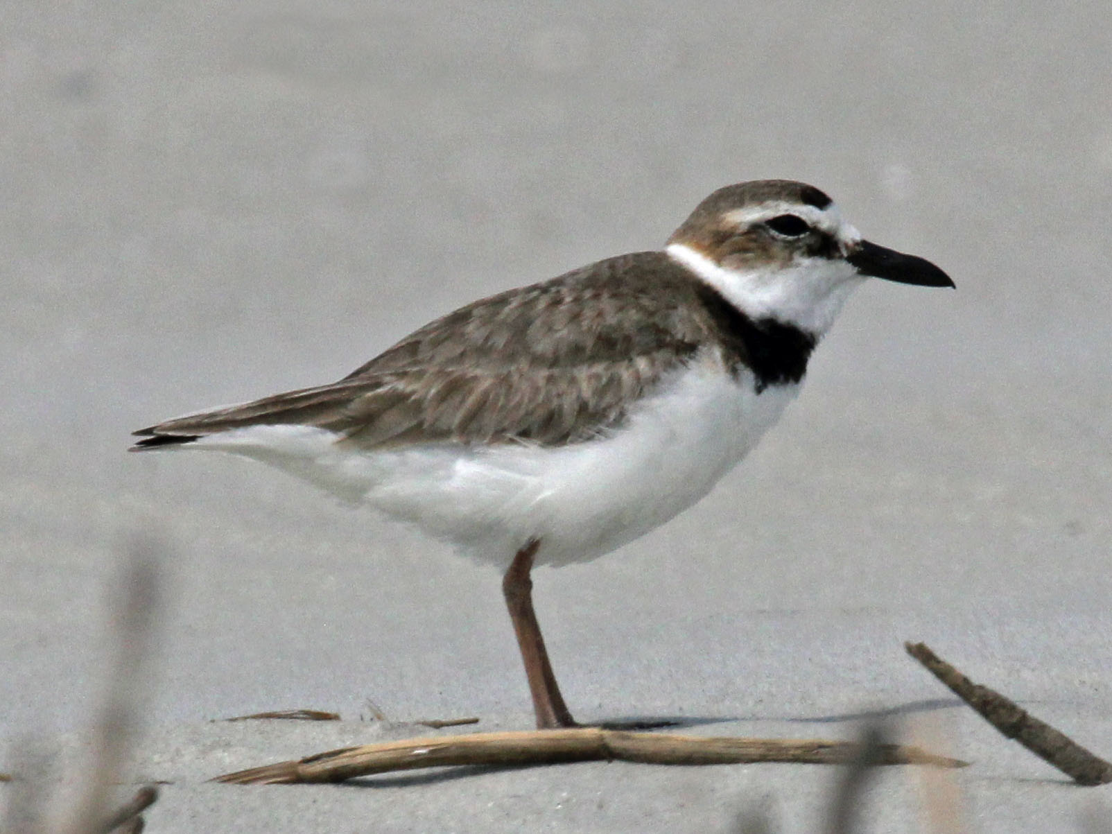 Male Wilson's Plover (Charadrius wilsonia) - Sunset Beach, North Carolina